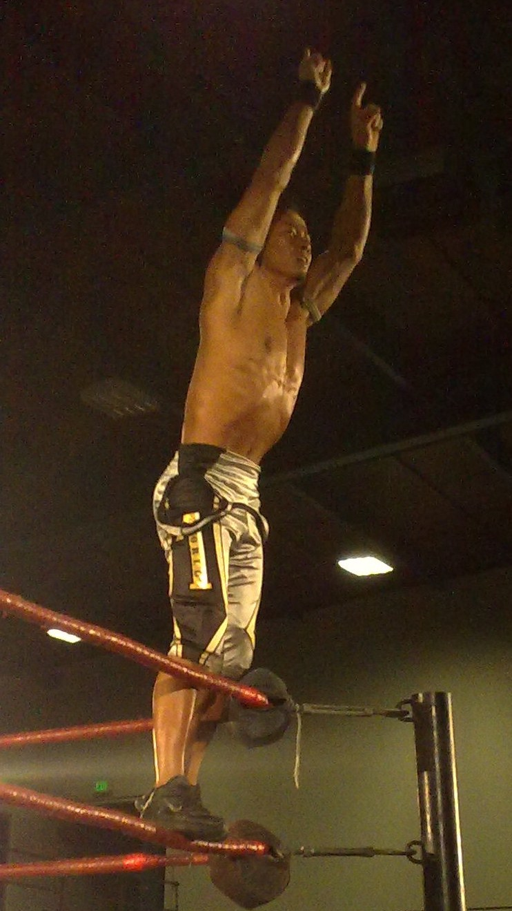 Masato Yoshino at Pro Wrestling Guerrilla's Battle of Los Angeles 2008 Night 2 show on November 2, 2008.